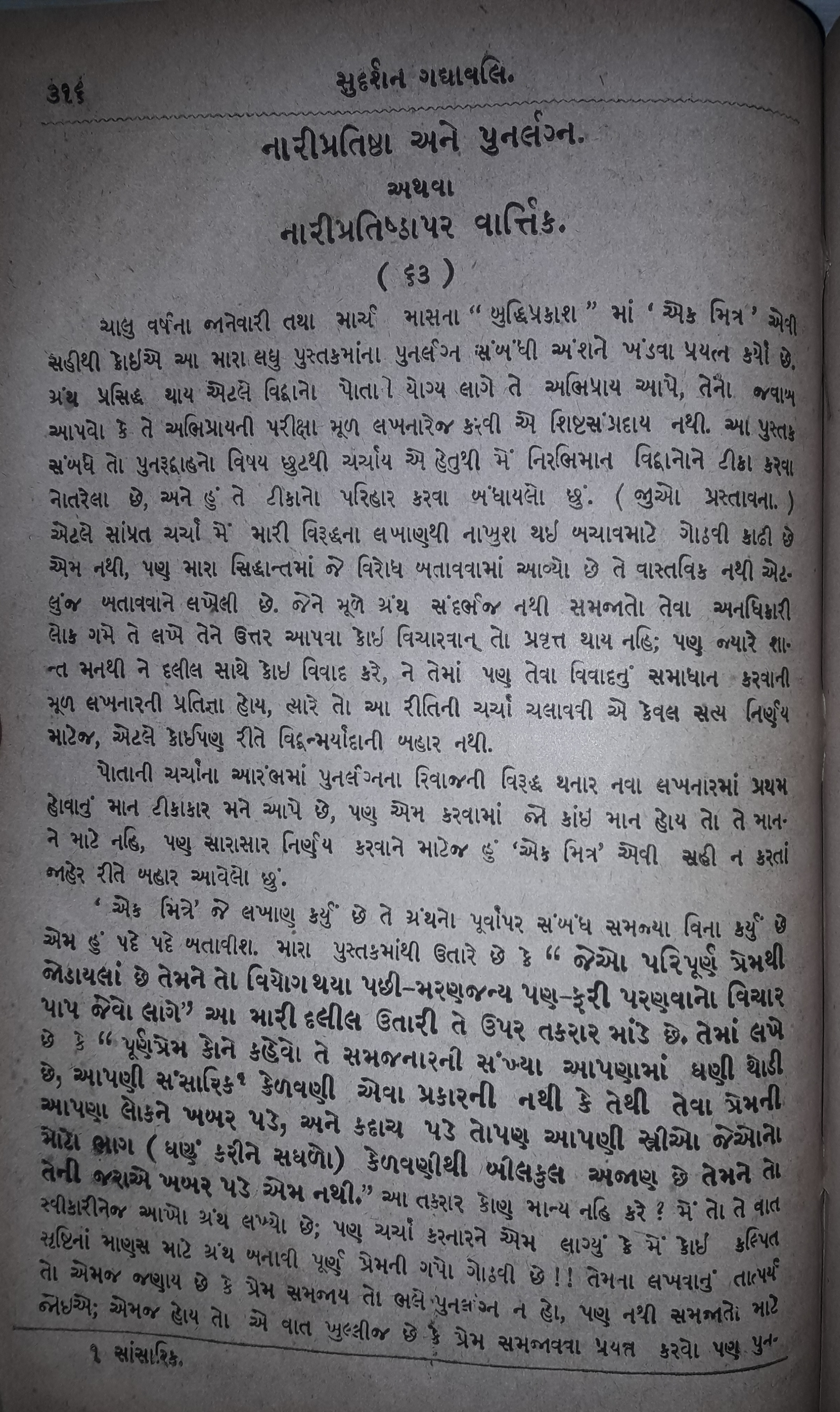 Manilal Nabhubhai Dwivedi's response to the criticism (written by anonymous reviewer) of Nari Pratishtha, an essay written by Manilal himself